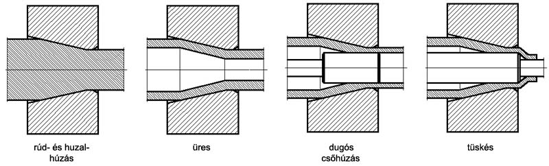 Methodes of drawing